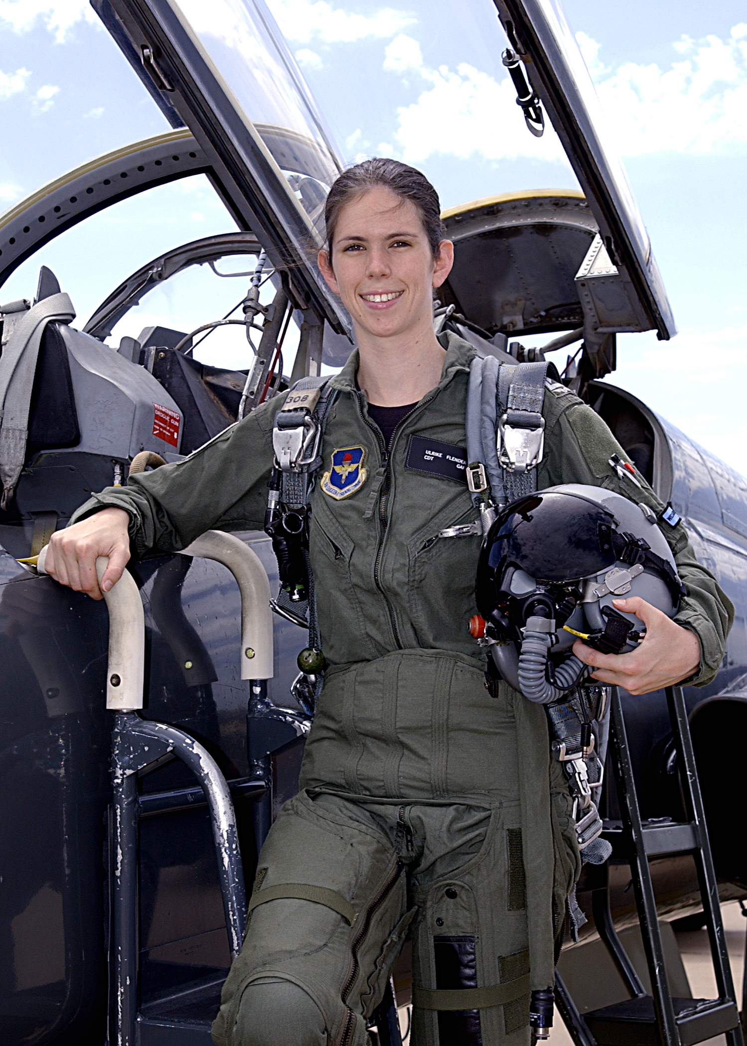 Cadet Ulrike Flender became the first German female student pilot to graduate from ENJJPT (Euro-NATO Joint Jet Pilot Training).